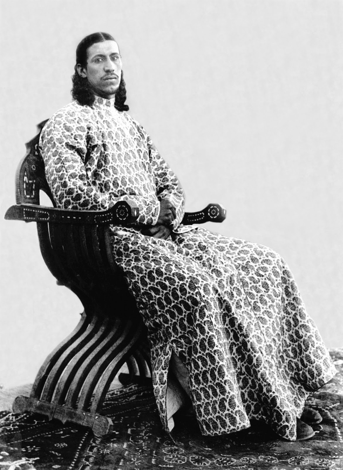 Photograph of Crown Prince Amir Saud of Saudi Arabia.